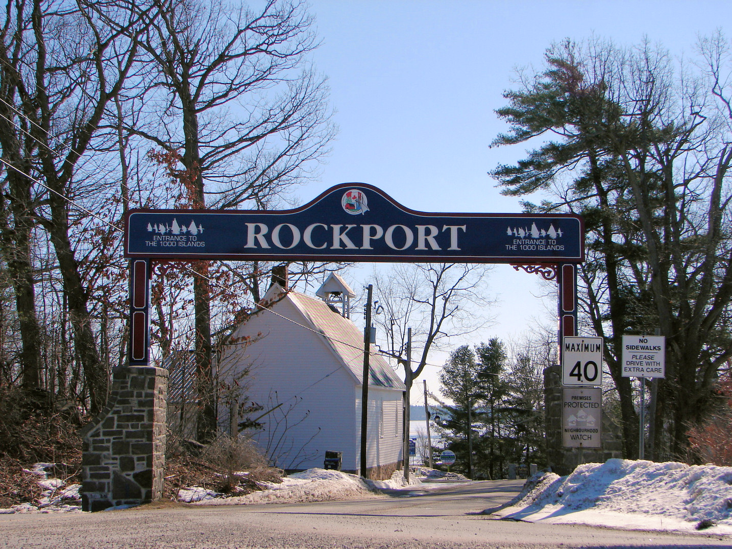 Rockport, Township of Leeds and the Thousand Islands, Ontario, Canada